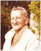 Yves Jamiaque